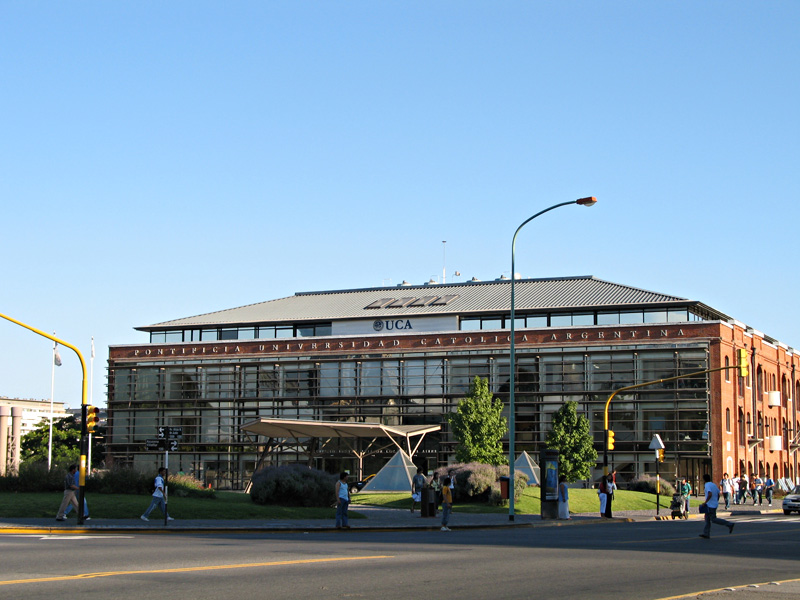 Buenos Aires campus of the Argentine Catholic University (UCA).